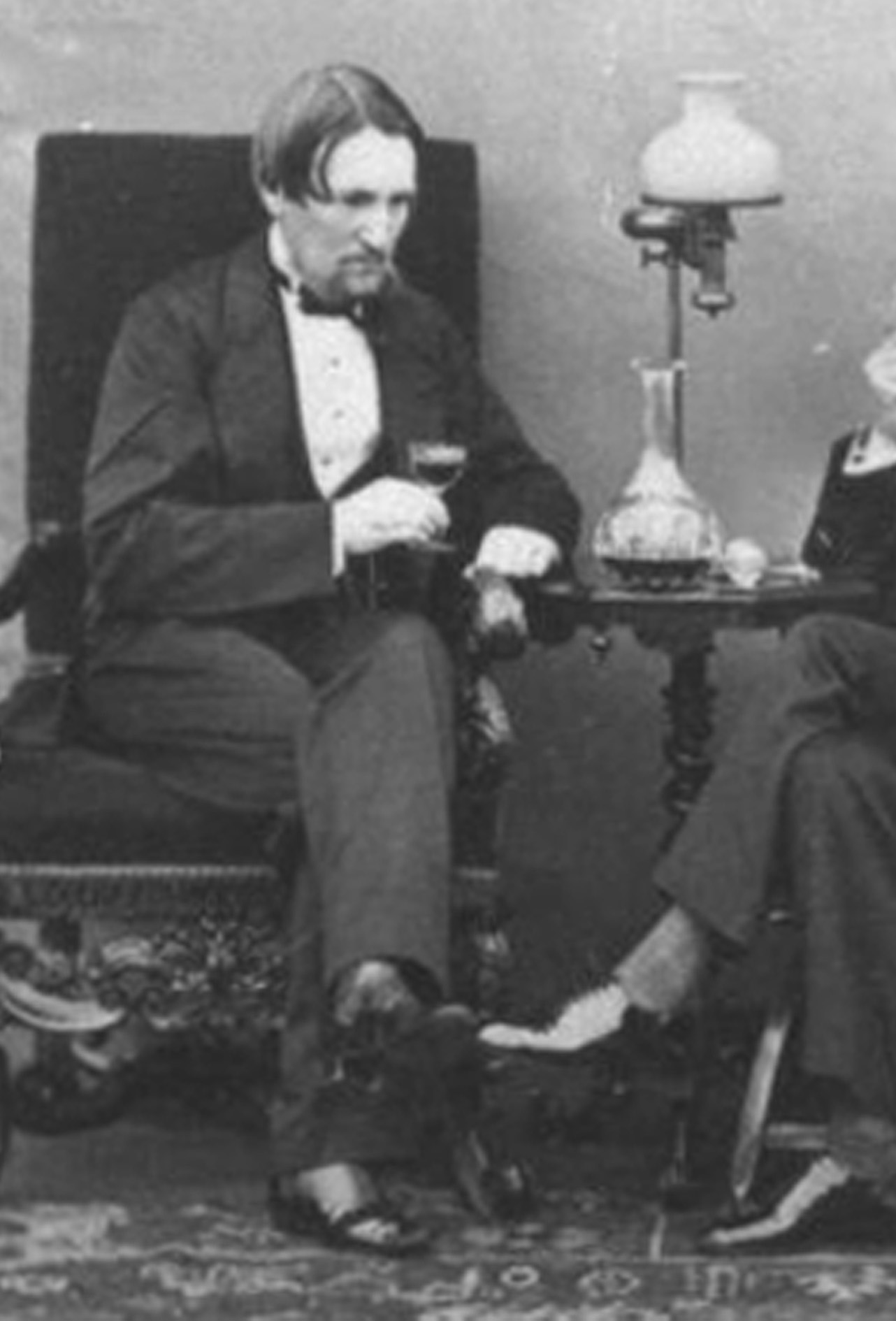 Francis Barchard (1826-1904)owner of Horsted Place, Sussex